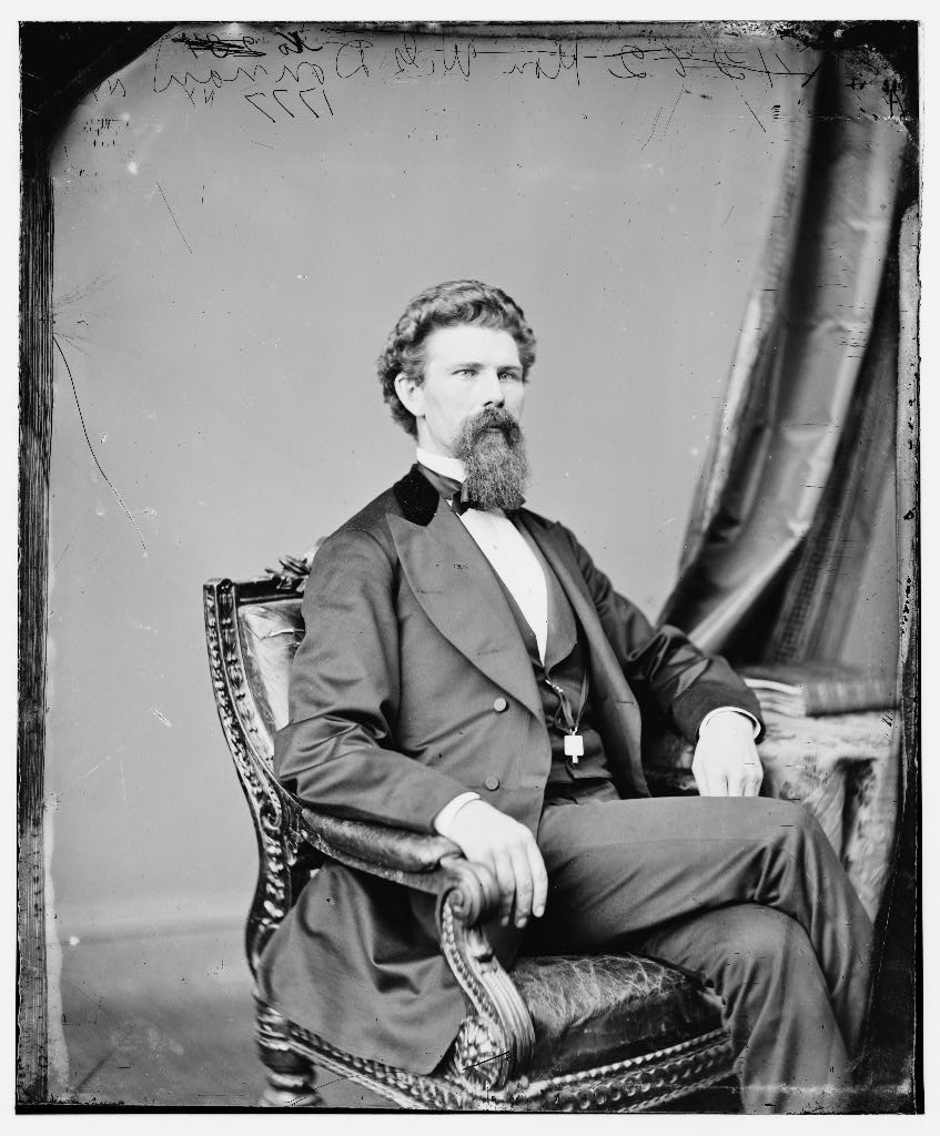 William G. Donnan (June 30, 1834 - December 4, 1908) was a pioneer lawyer, Civil War officer, and two-term Republican U.S. Representative from Iowa's 3rd congressional district during the administration of President Ulysses S. Grant.